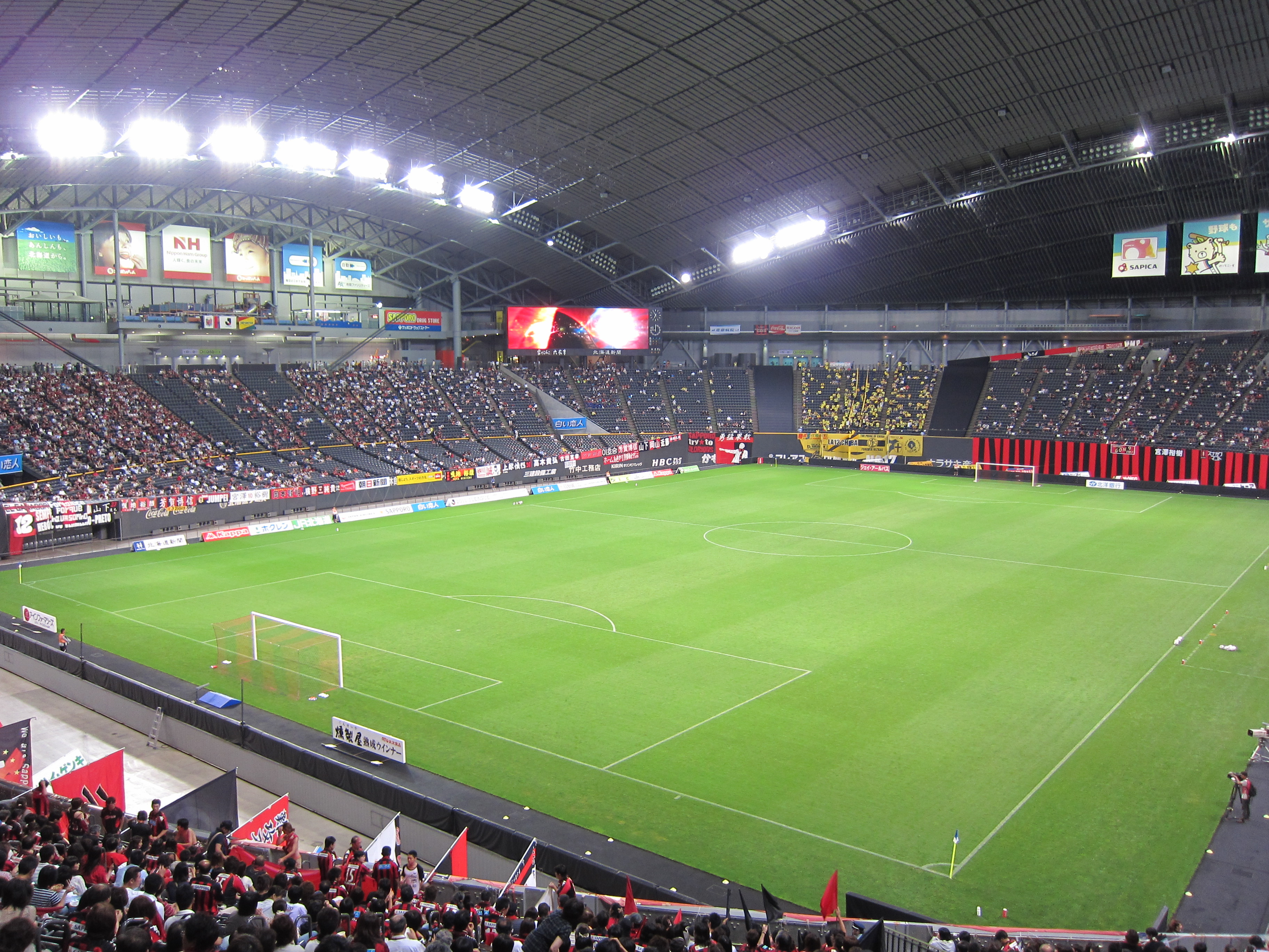 Sapporodome